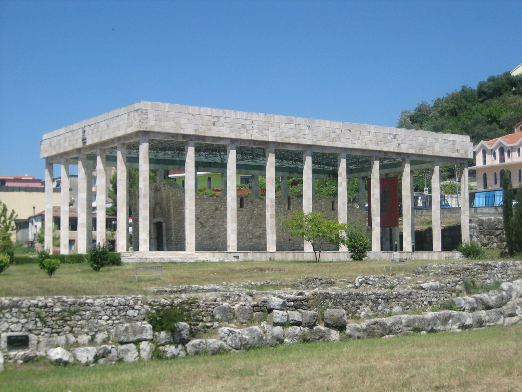 Skanderbeg's grave at Lezhë, Albania